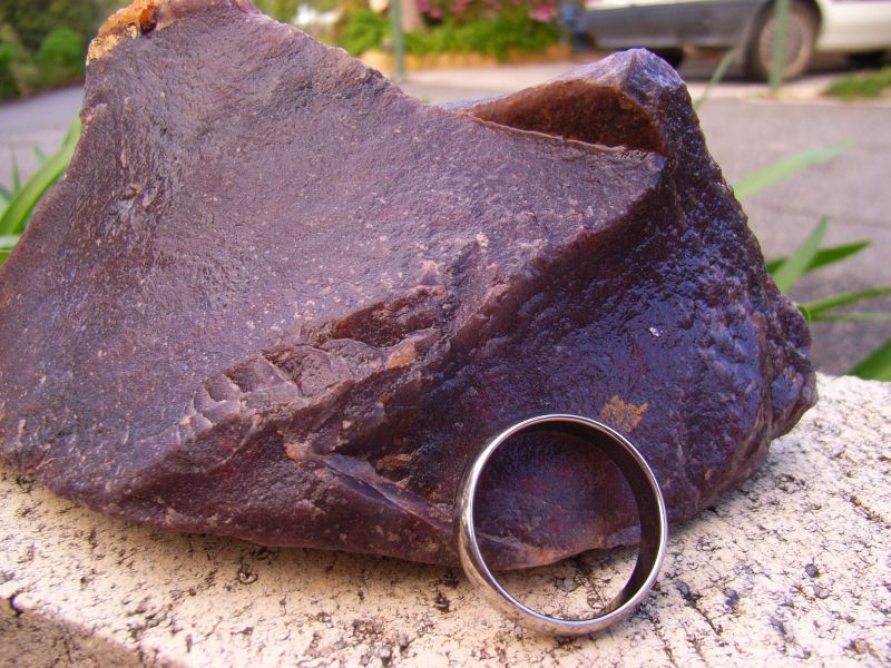 Hematitic jasperoid, Yarlarweelor mine, Glengarry Basin, Western Australia. Image taken by Rolinator/Rolang gotthard. Ring for scale. Image released to public domain.